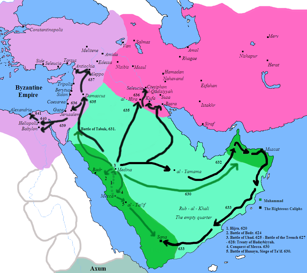 Conquests of Prophet Muhammad and the Rashidun Caliphate, 630-641.